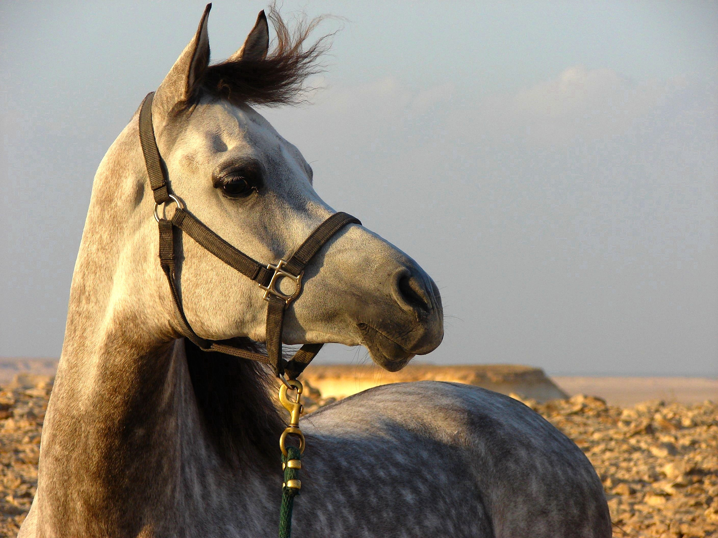 Jument Arabe - Zikrit Desert - Qatar